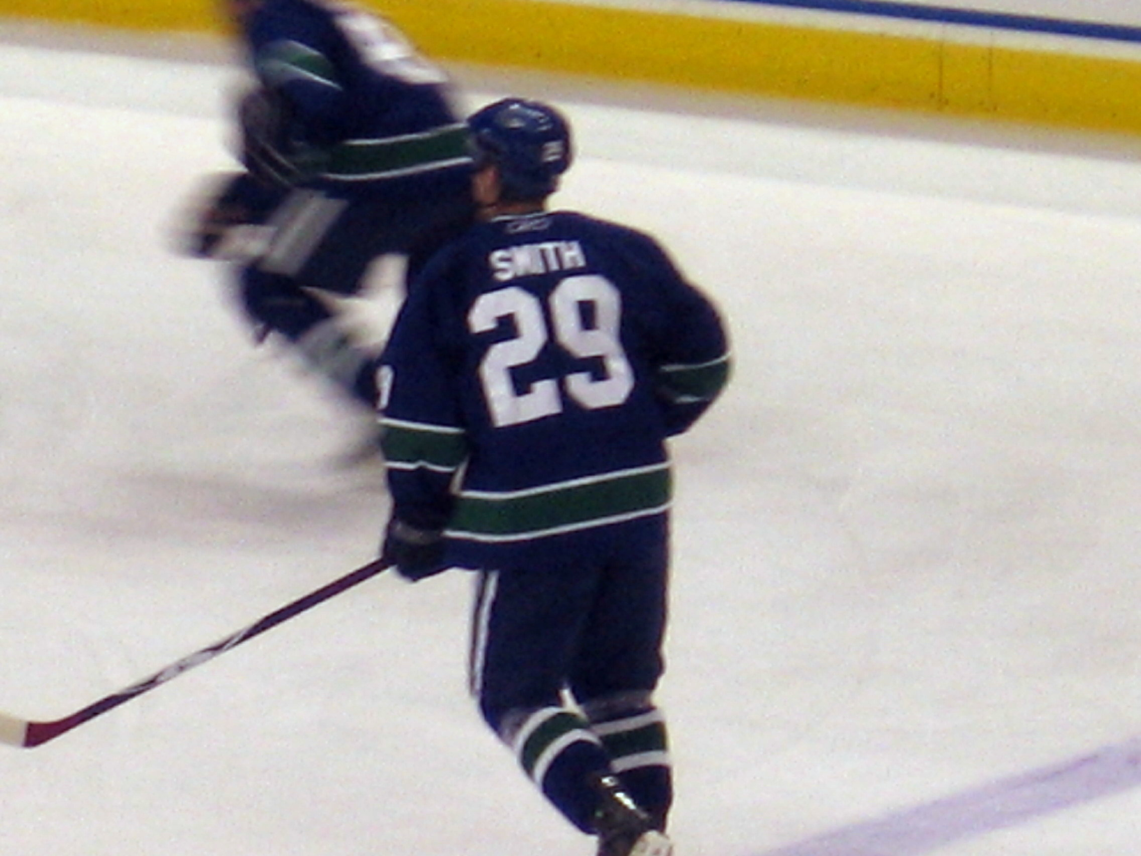 Vancouver Canuck's Nathan Smith warming up at GM Place before playing the Anaheim Ducks in a playoff game.